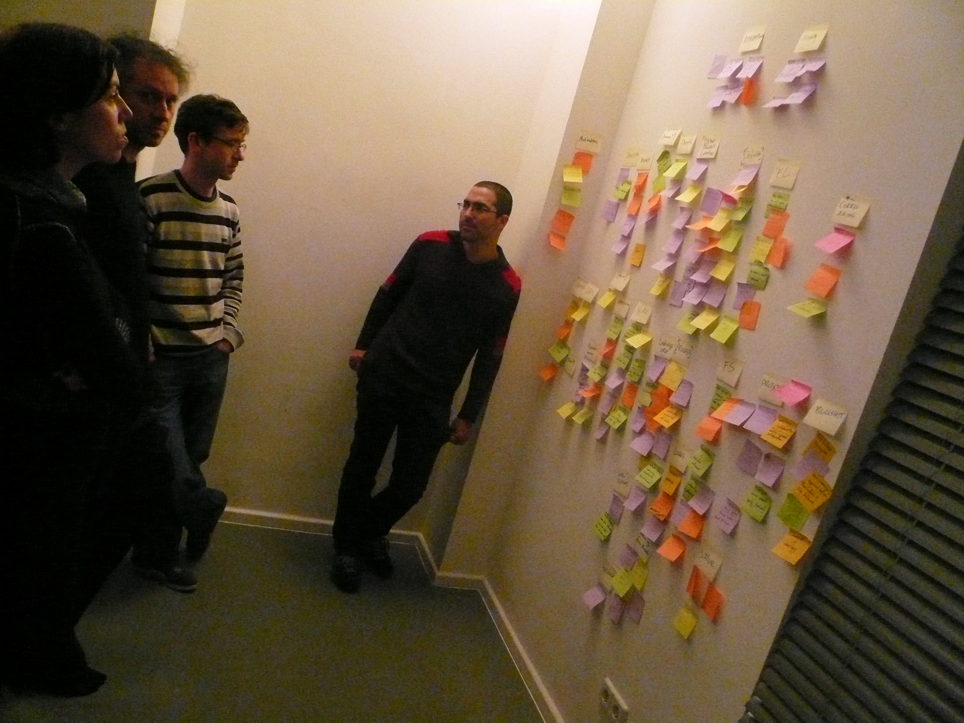 Brainstorming about the booksprint Collaborative Futures in Berlin.